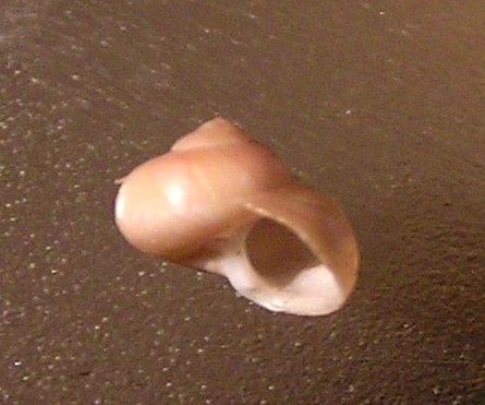 Photinula blakei (Clench & Aguayo, 1938), a sea snail from the family Calliostomatidae; Argentina